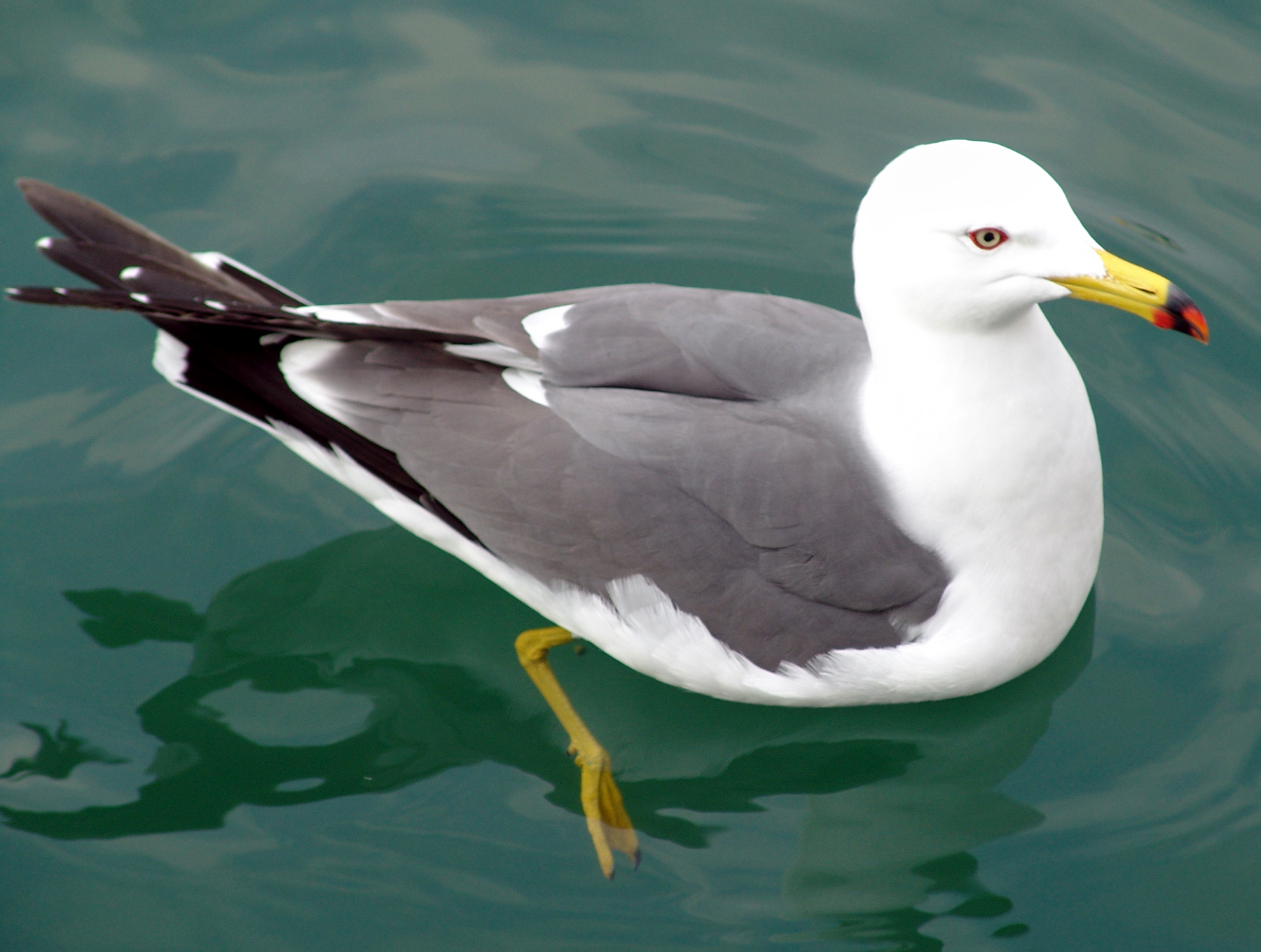 Larus crassirostris in water